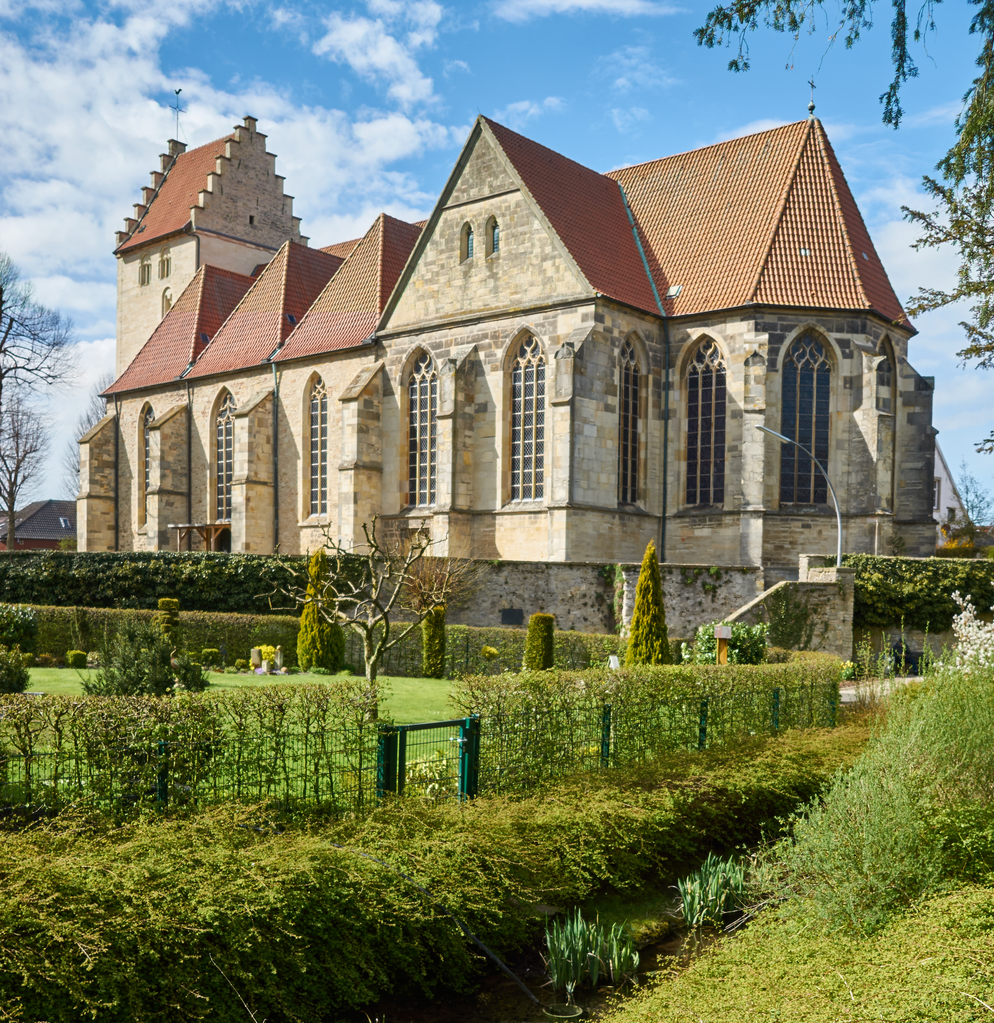 St. Brictius is a church in Schöppingen, North Rhine-Westphalia, Germany. This is a photograph of an architectural monument.